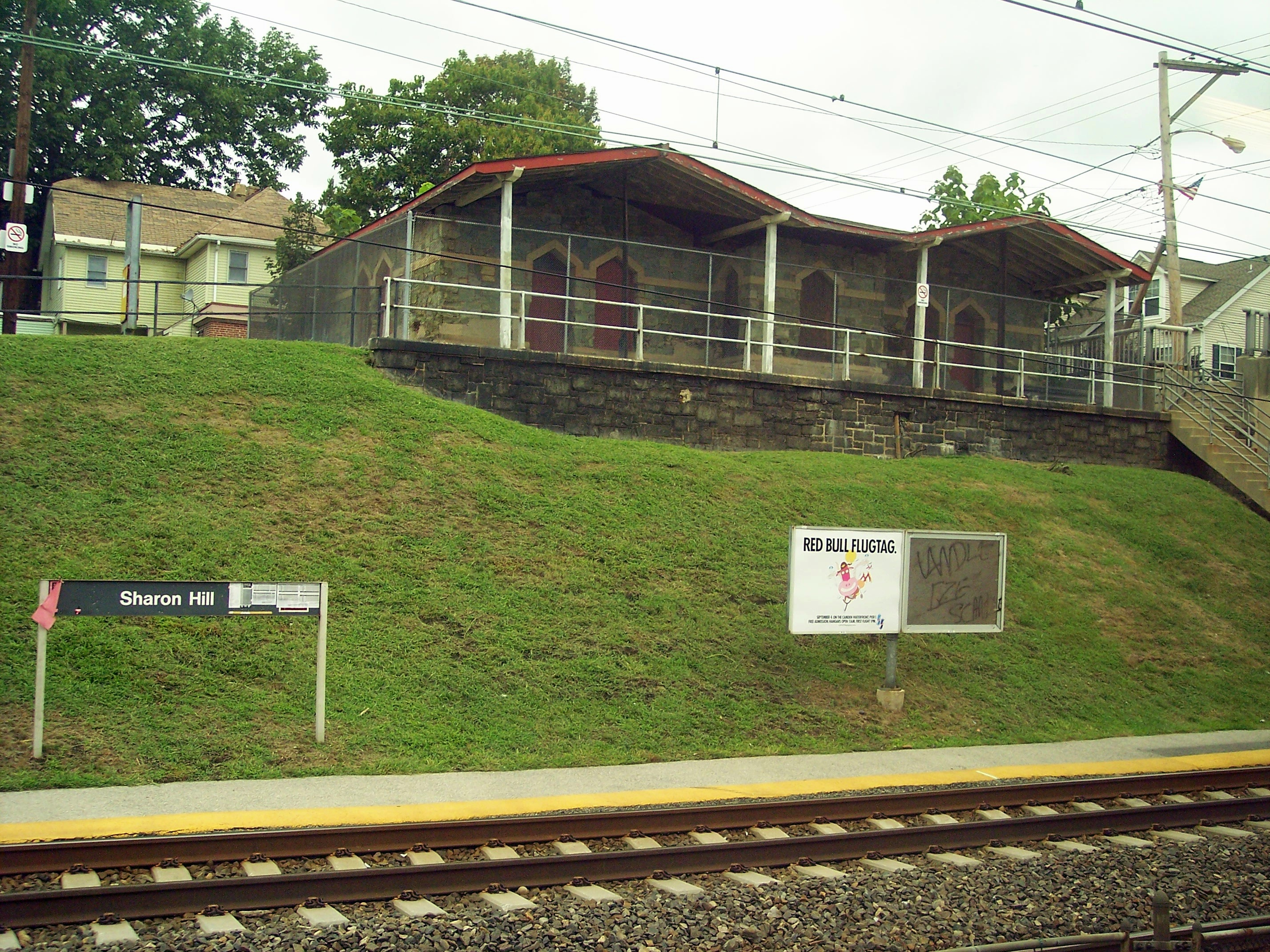 The platform at the Sharon Hill station